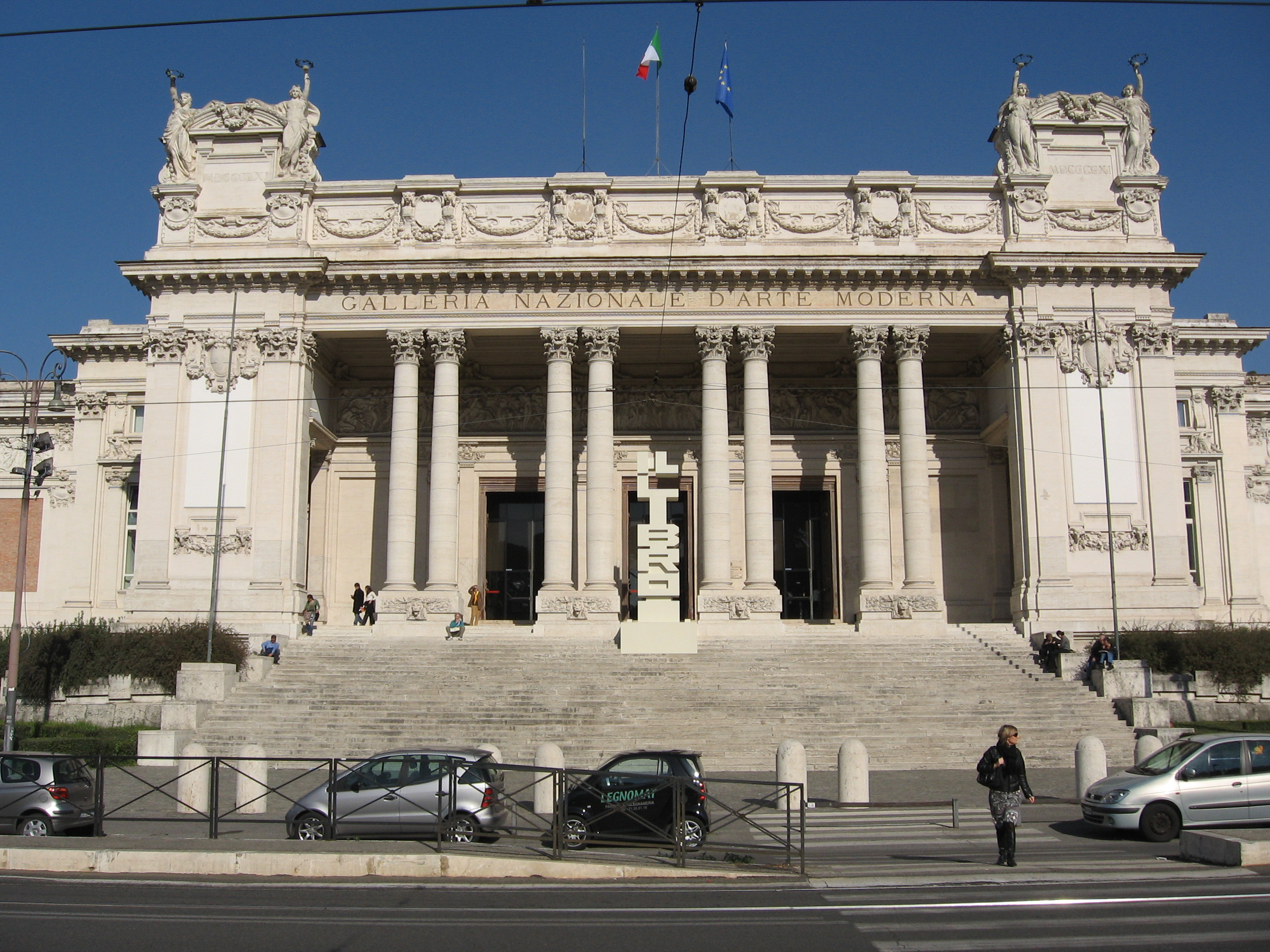 National gallery of modern arts, viale delle Belle arti, Rome, Italy